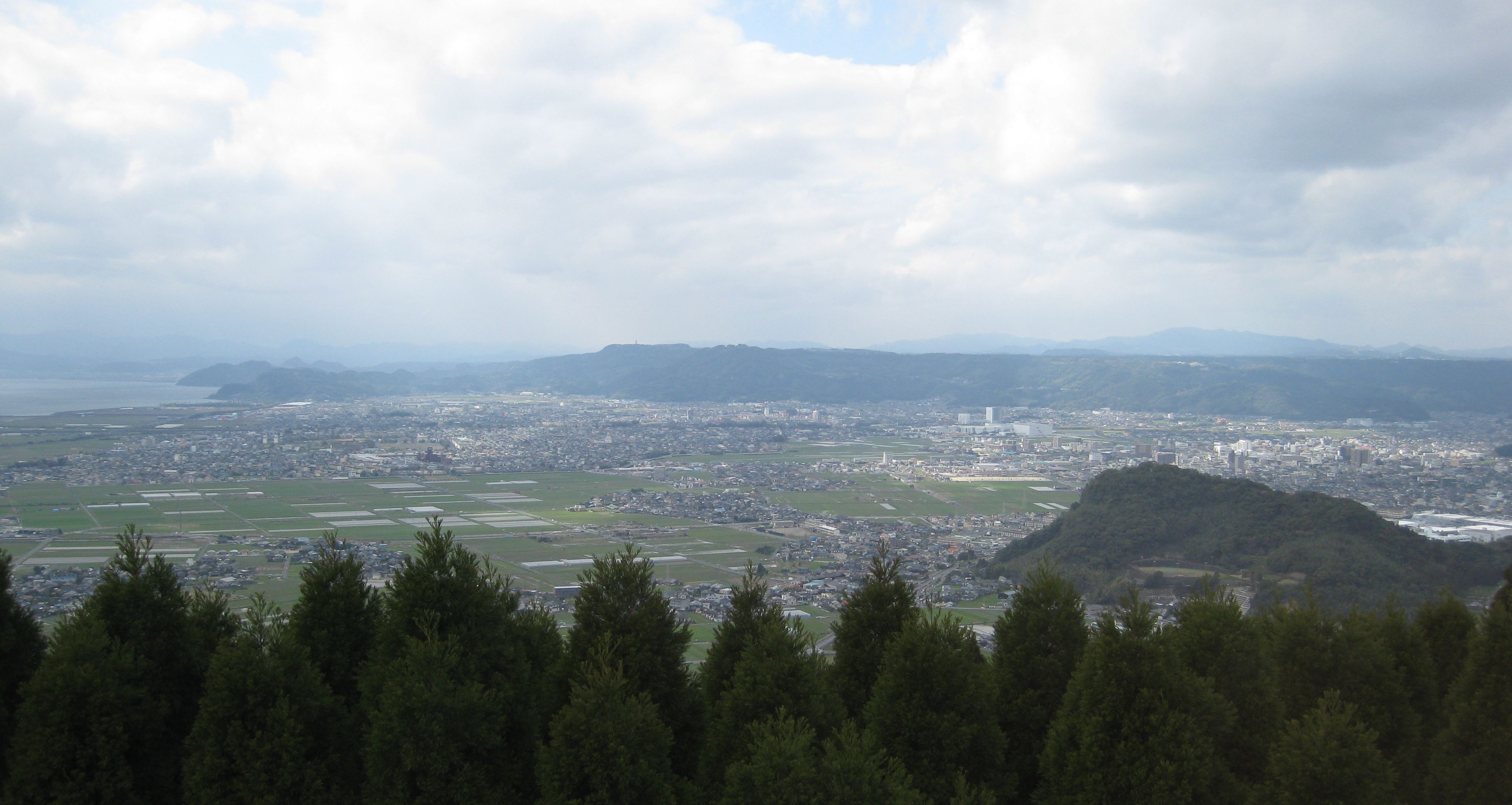 Kokubu Plain from the Kokubu Hi-Tech Observation Deck in Kirishima City